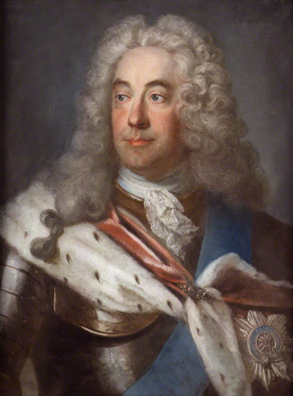 James Waldegrave - (d. 1741) portrait